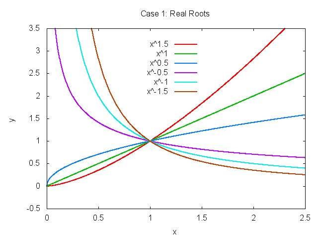 Typical solution curves for a second order Euler-Cauchy equation for the case of two real roots.